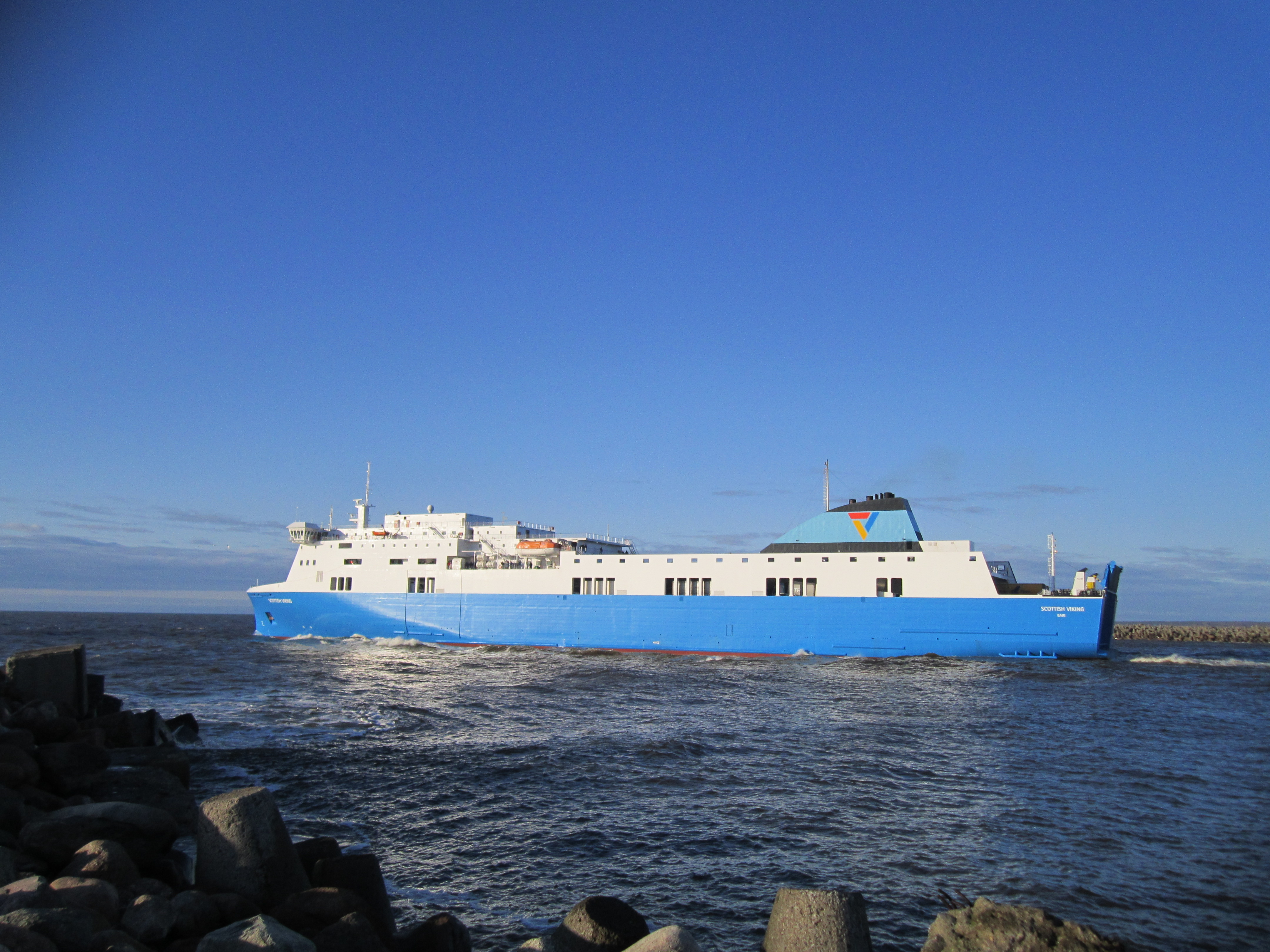 Ferry Scottish Viking departing from Ventspils, Latvia